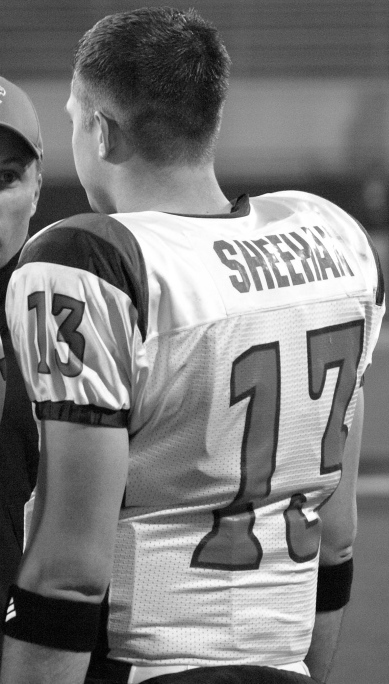 Freddie Barnes huddling with his team and coach